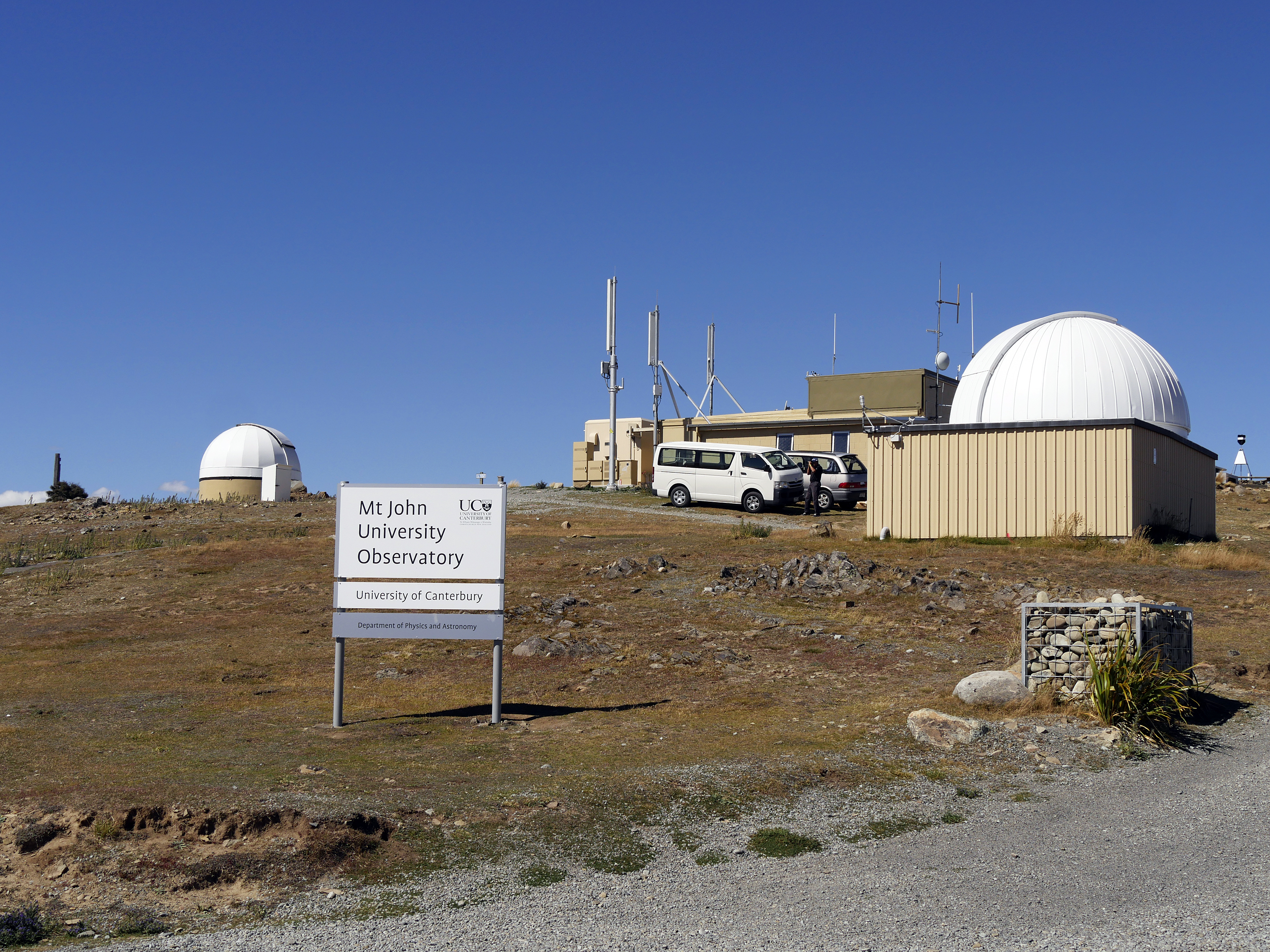 Mt John University Observatory, Mount John at Lake Tekapo, Mackenzie District, Canterbury Region, South Island, New Zealand (way entrance to the observatory area)